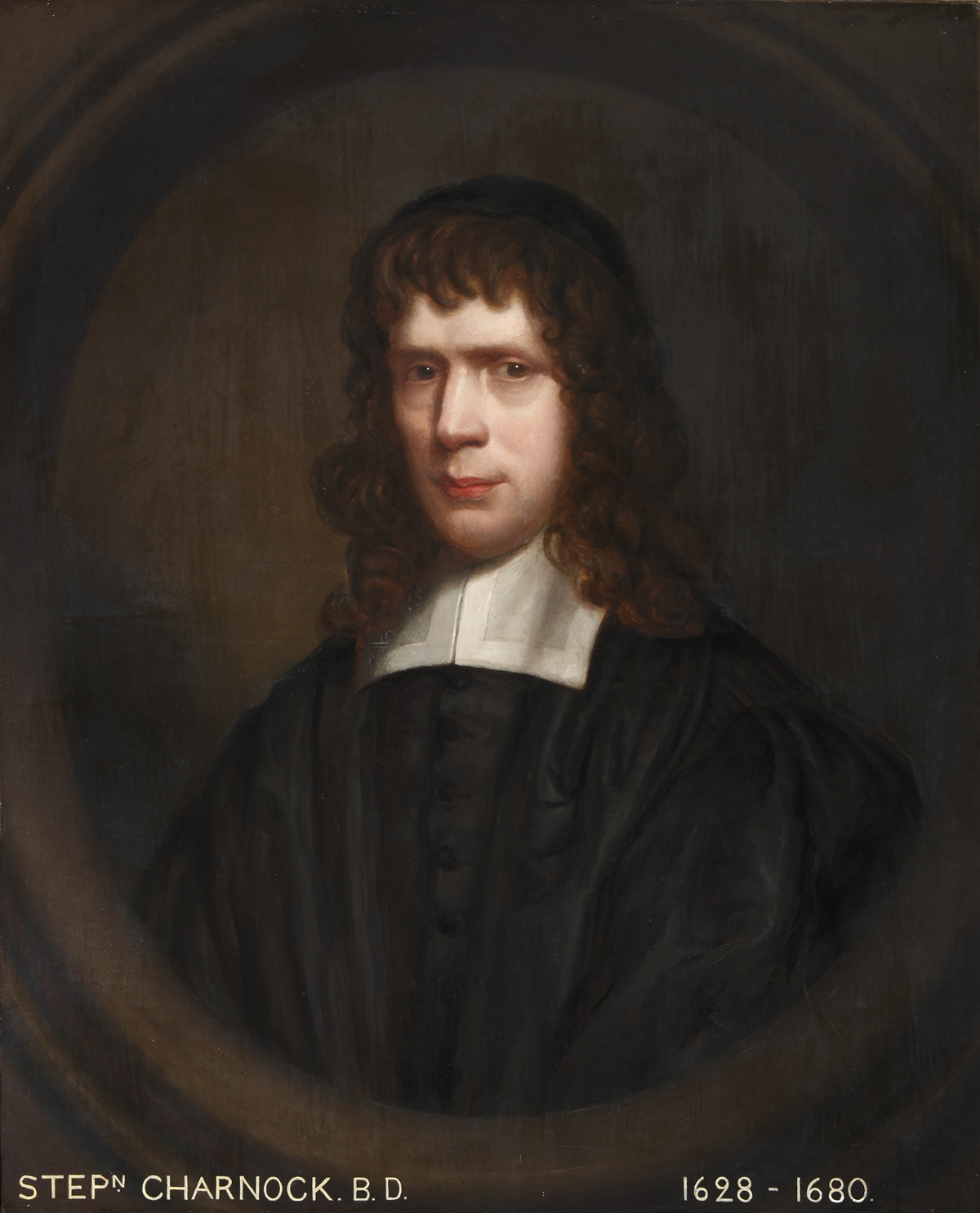 Oil on canvas, 80 x 59 cm Collection: Mansfield College, University of Oxford